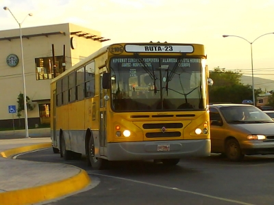 Ruta 23 Cedros de Transregio